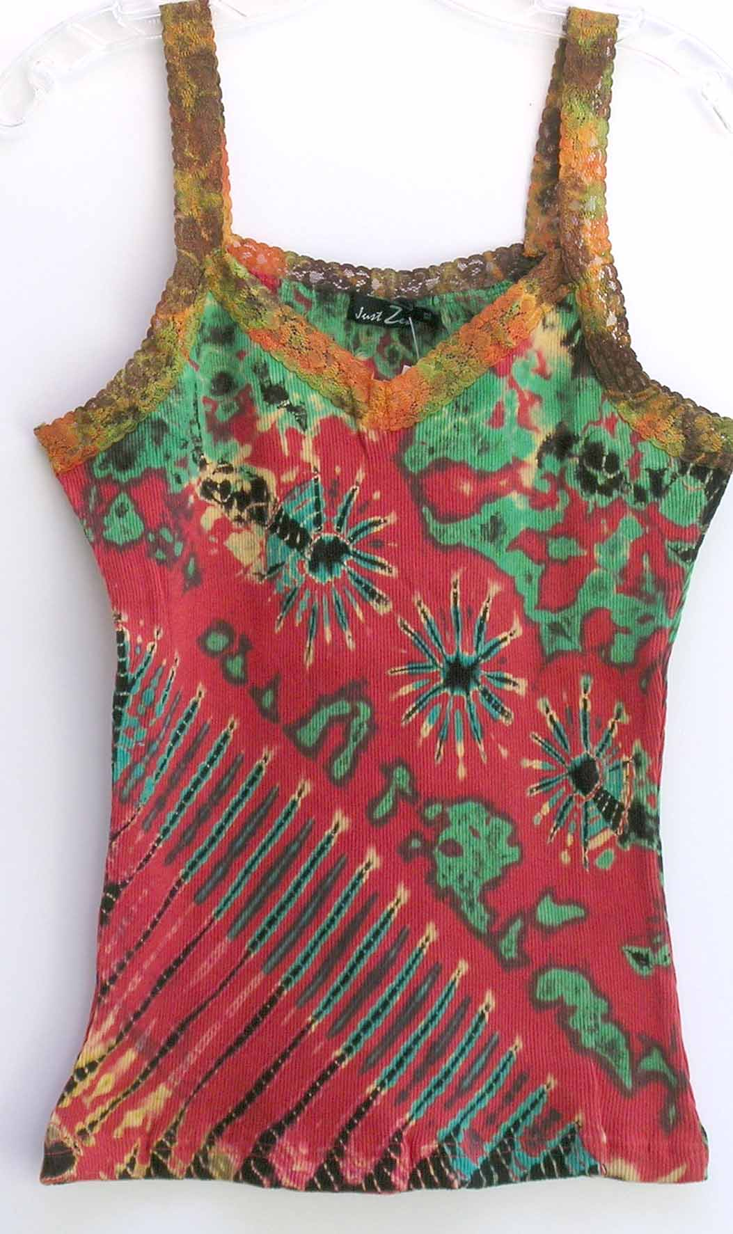 A tie dyed lace tank. Photo taken by User:Gezi and explicitly released under GFLD by ThaiDye Artists.